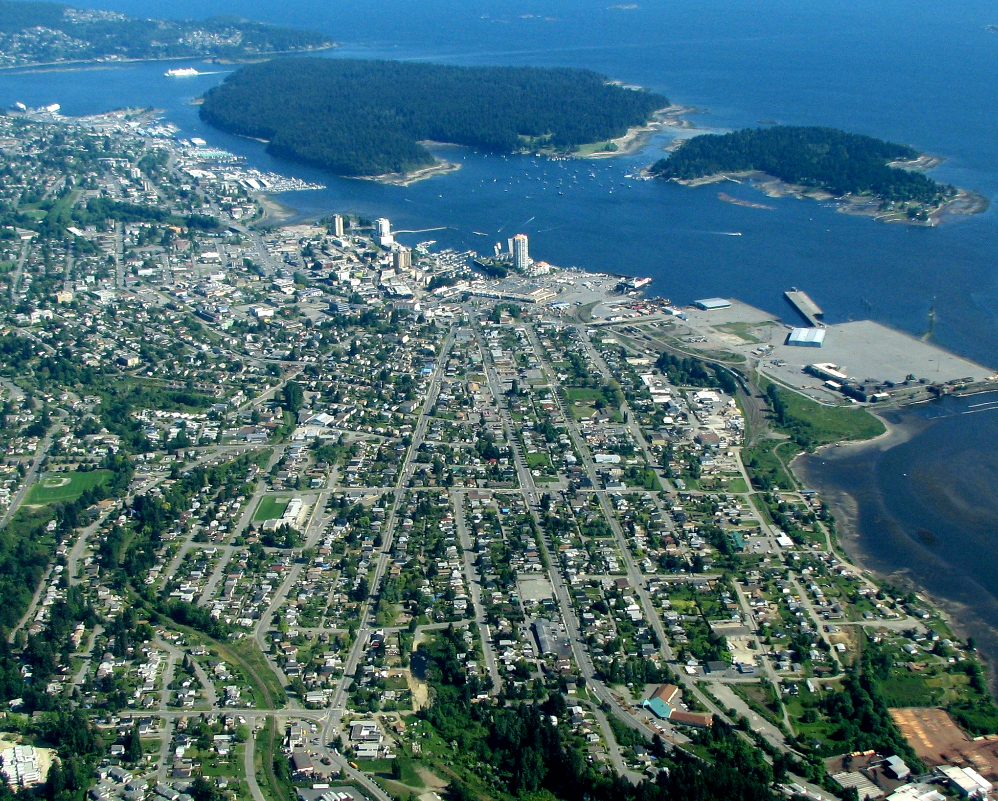 Aerial image of downtown Nanaimo BC with Newscastle Island and Protection Island